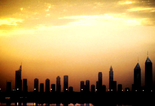 Dubai Skyline